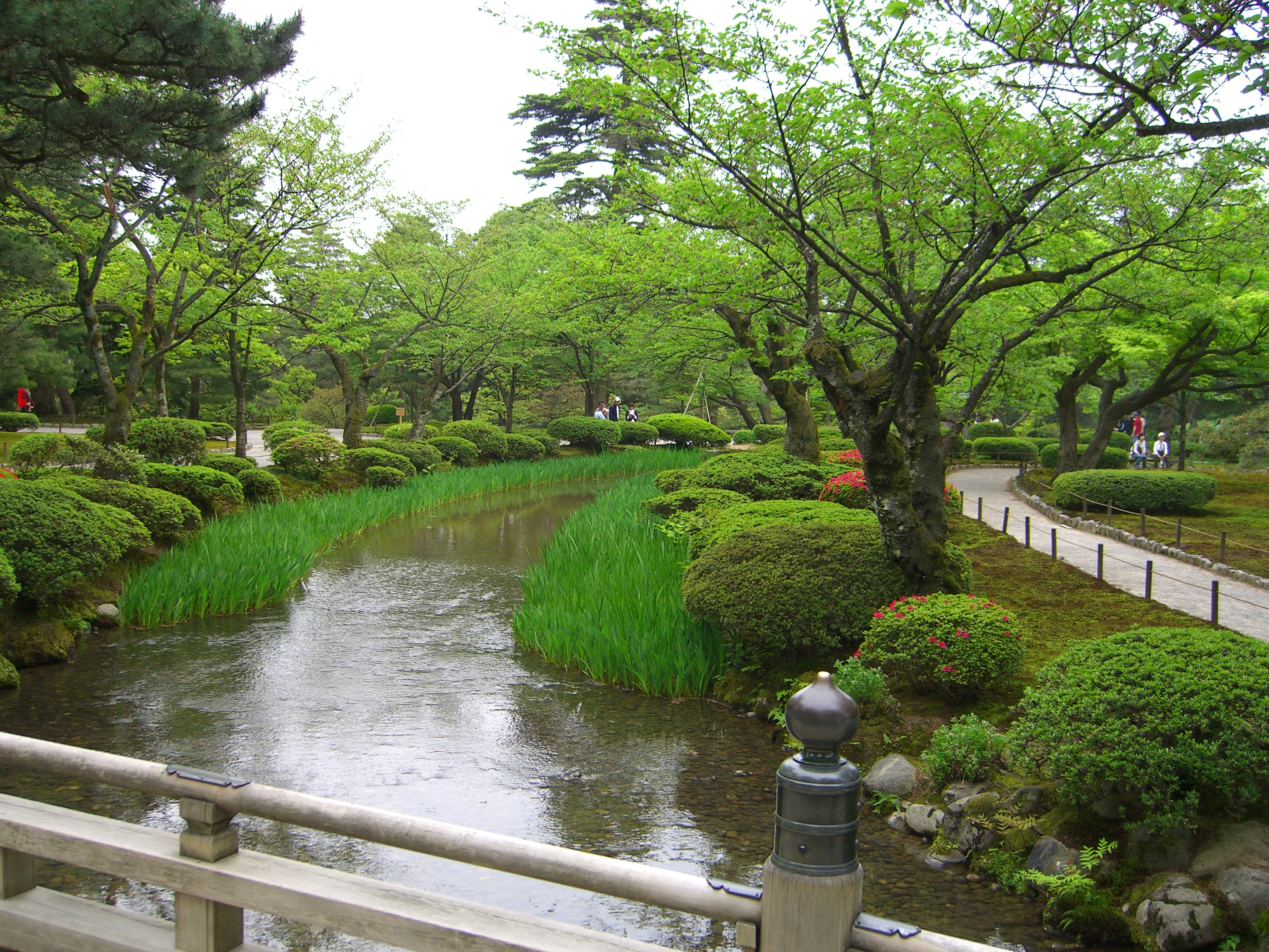 A view from the Hanami-bashi Bridge, at Kenroku-en Garden. Picture taken by Endroit on May 6, 2006, in Kanazawa, Japan.Endroit